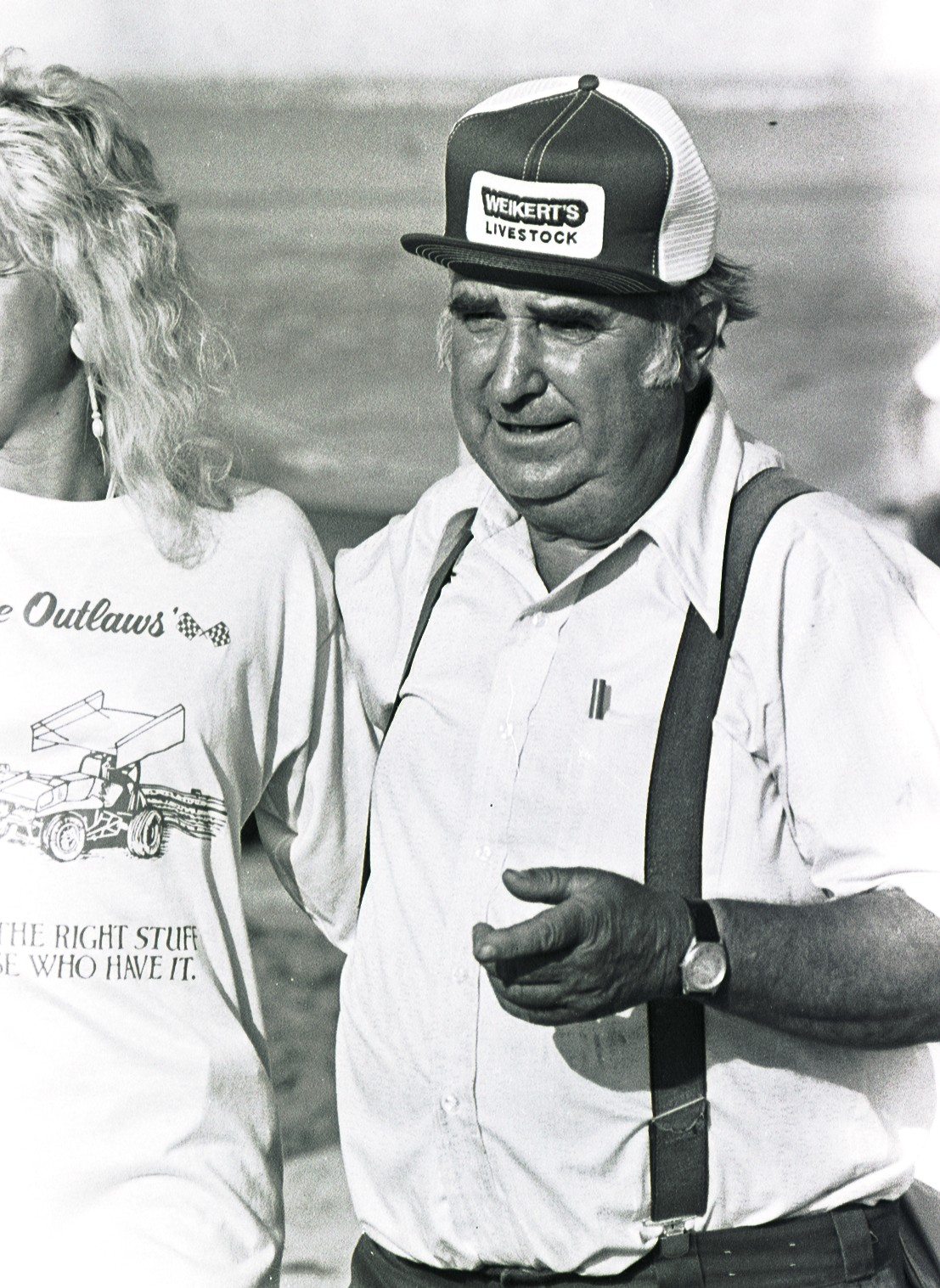 Earl Baltes, founder and long-time operator of Eldora Speedway.